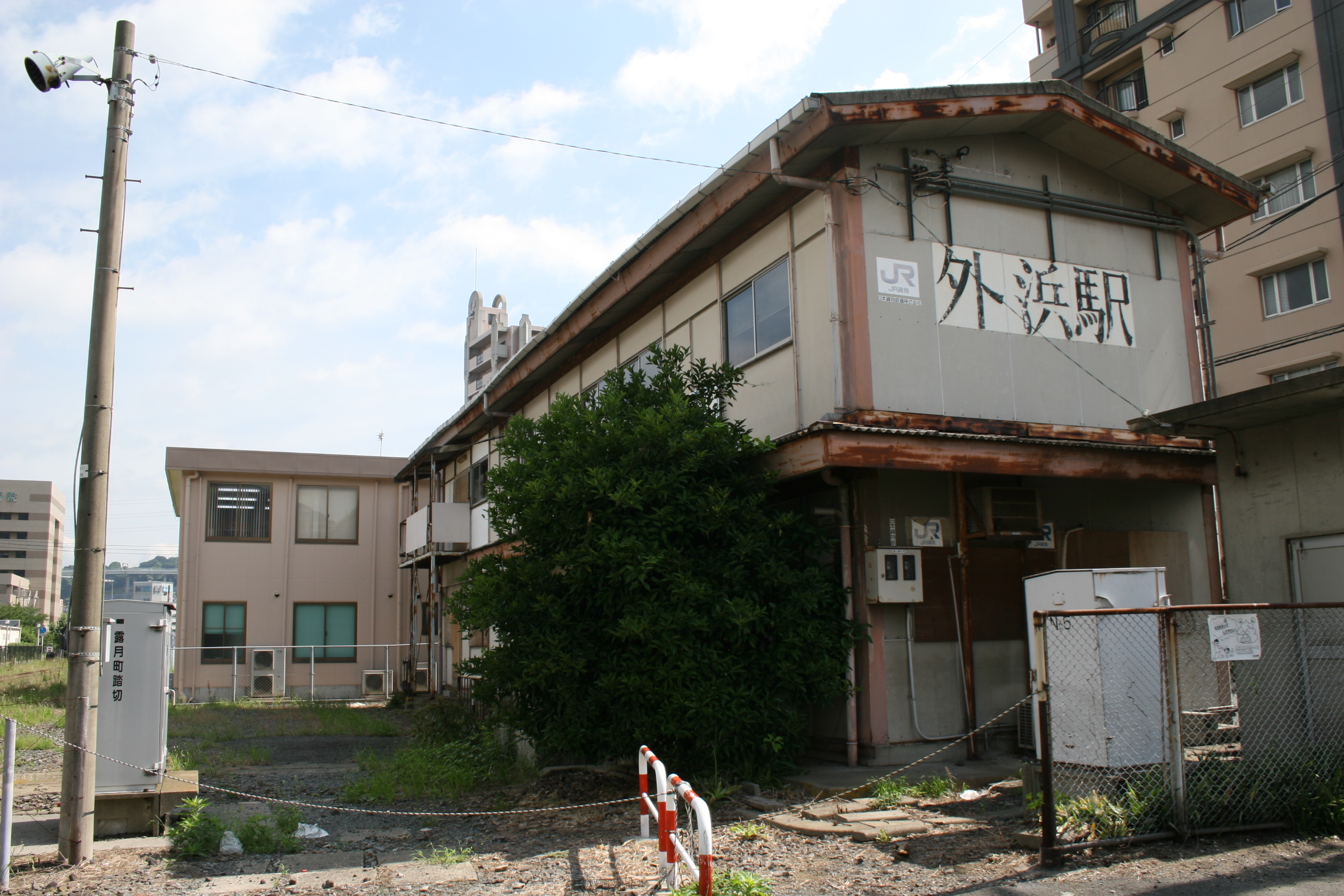 Sotohama freight railway station in Moji-ku, Kitakyushu, Japan. At the time of the photograph, operation of the station was being suspended. The station was later officially closed.